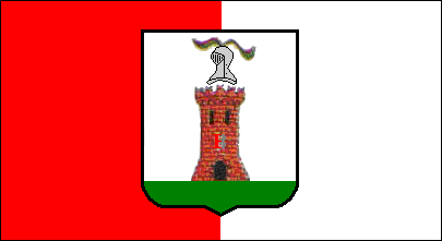 Town flag of Baronissi